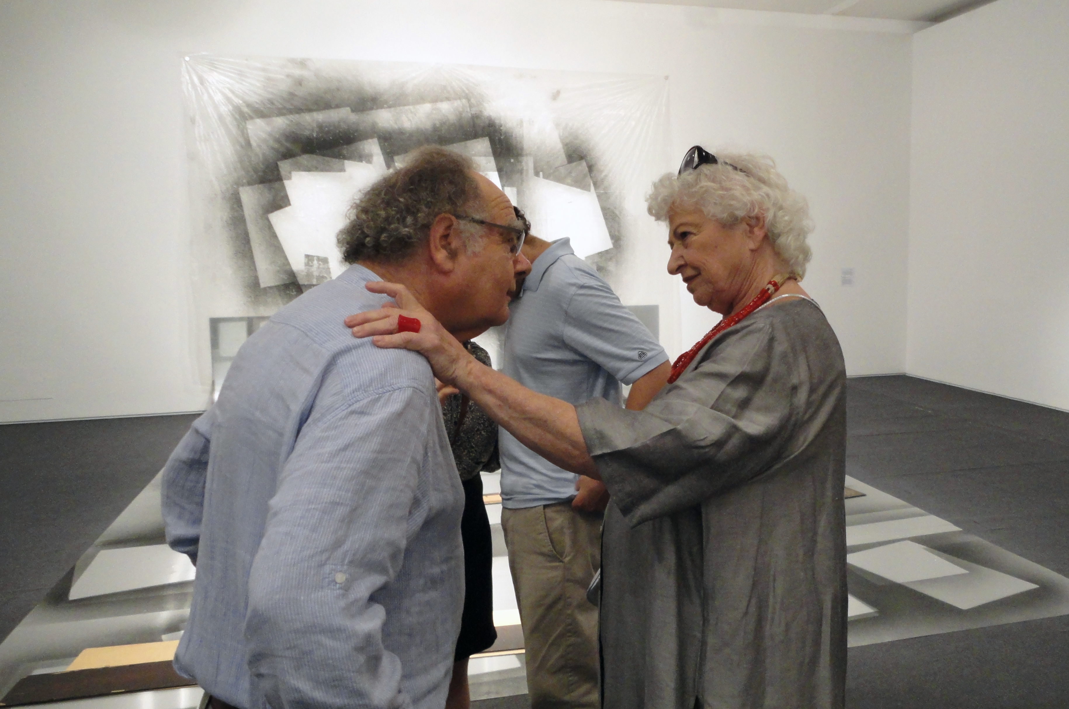 Opening of Joshua Neustein's "Neustein: Drawing in the Margins" Exibition at Israel Museum, Jerusalem